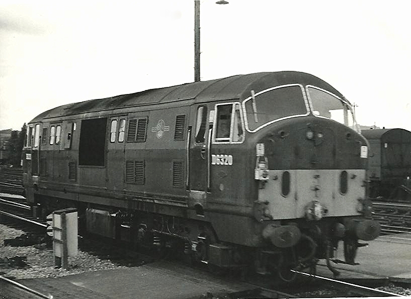 North British (later Class 22) 1,100 hp B-B No.D6320 in BR green livery (but apparently without white stripes?) with small yellow warning panel and no headcodes at Newton Abbot MPD, 08/66. Scanned photograph taken with a Kowa SET.